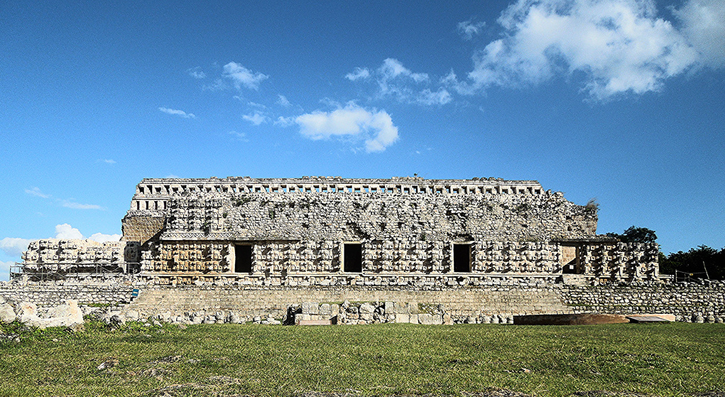 The Coodz Poop palace in Kabah, Yucatan, Mexico